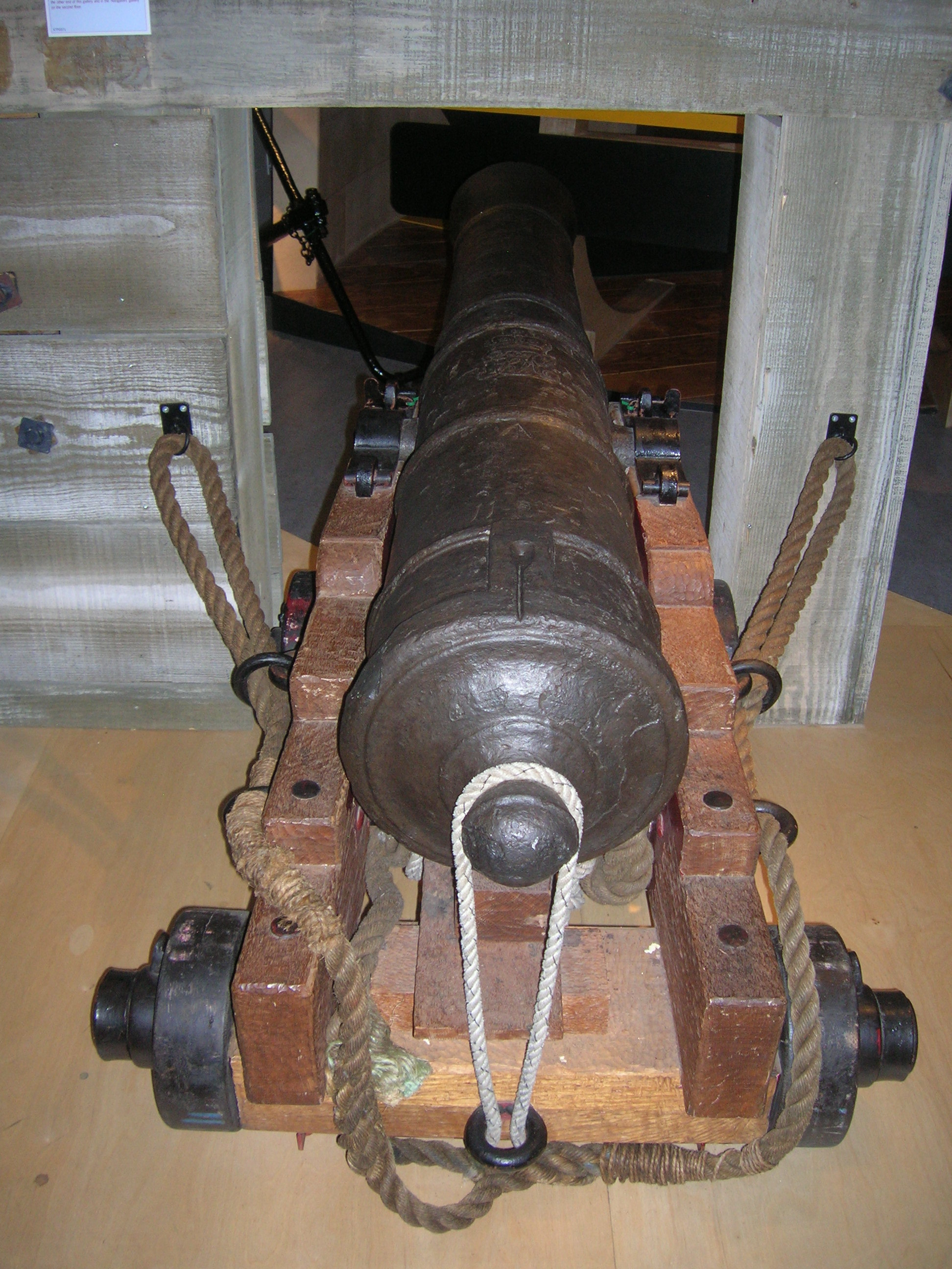 Photo of exhibit at the National Maritime Museum, Greenwich